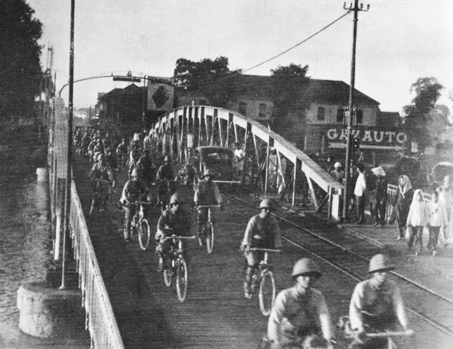 Japanese troop